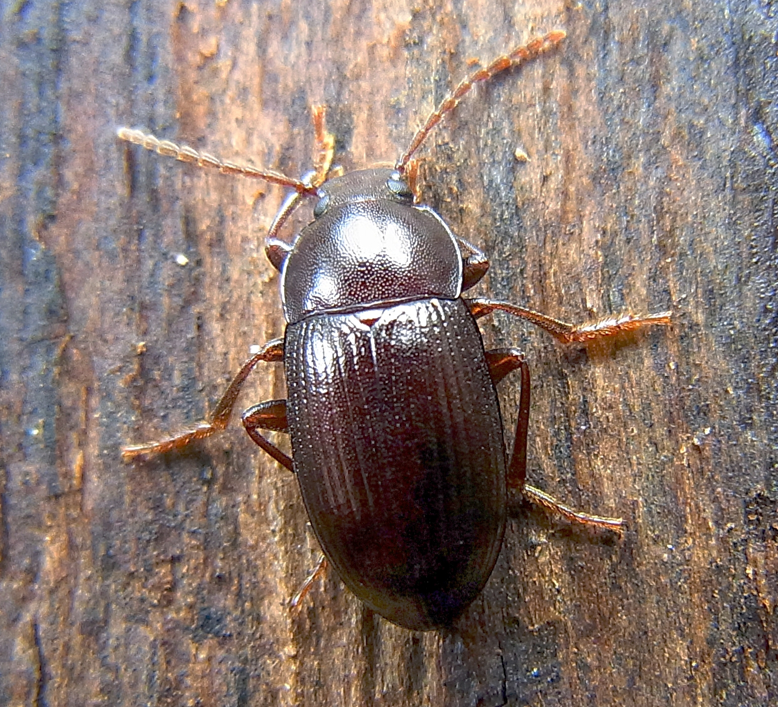 Nalassus laevioctostriatus, found at 2010-10-31 under the bark of dead oak-trunk in France, at the border of Bordeaux-Pessac